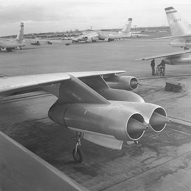 25th BS B-47s on Smoky Hill AFB, Kansas flight line. 1956